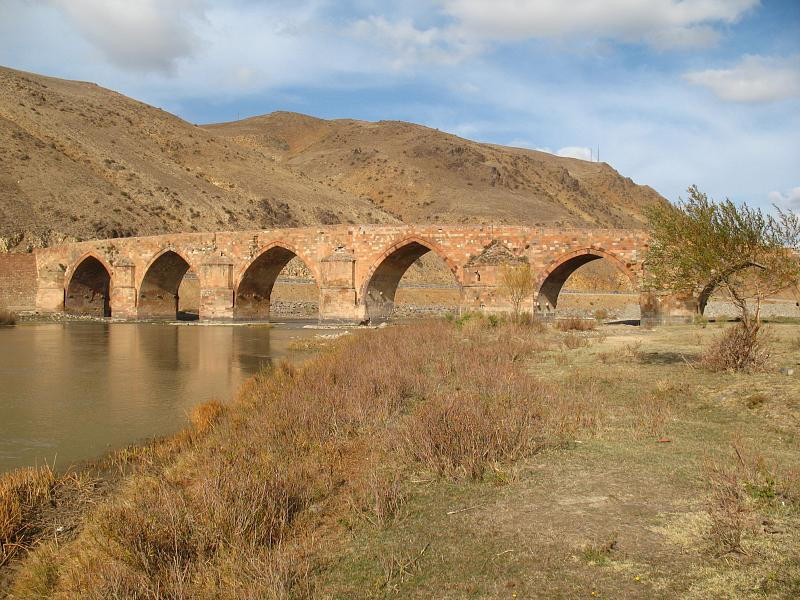 Cobandede Arcbridge built around 1300 on way to Kars